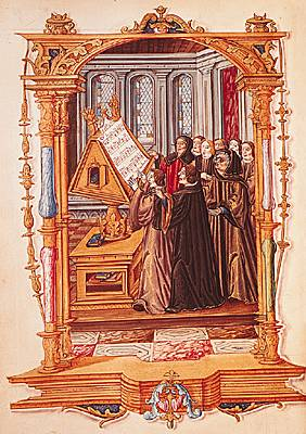 Johannes Ockeghem in a painting from 16th century